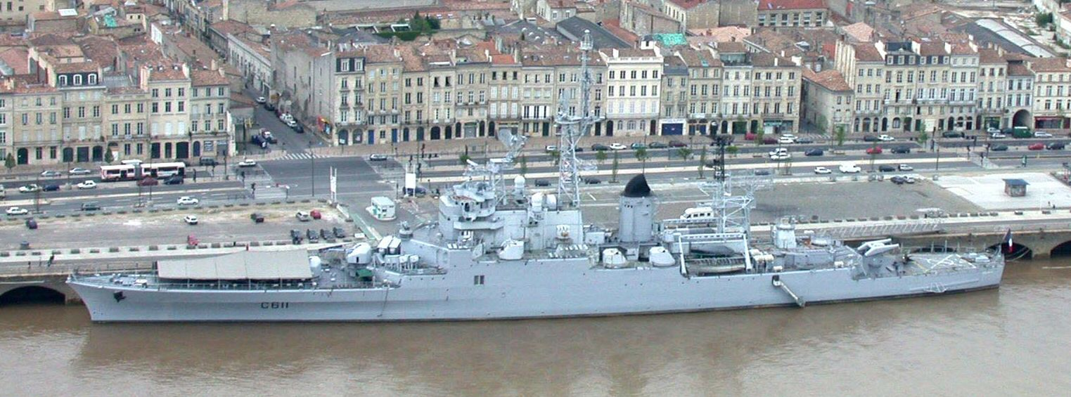 Cruiser Colbert in Bordeaux